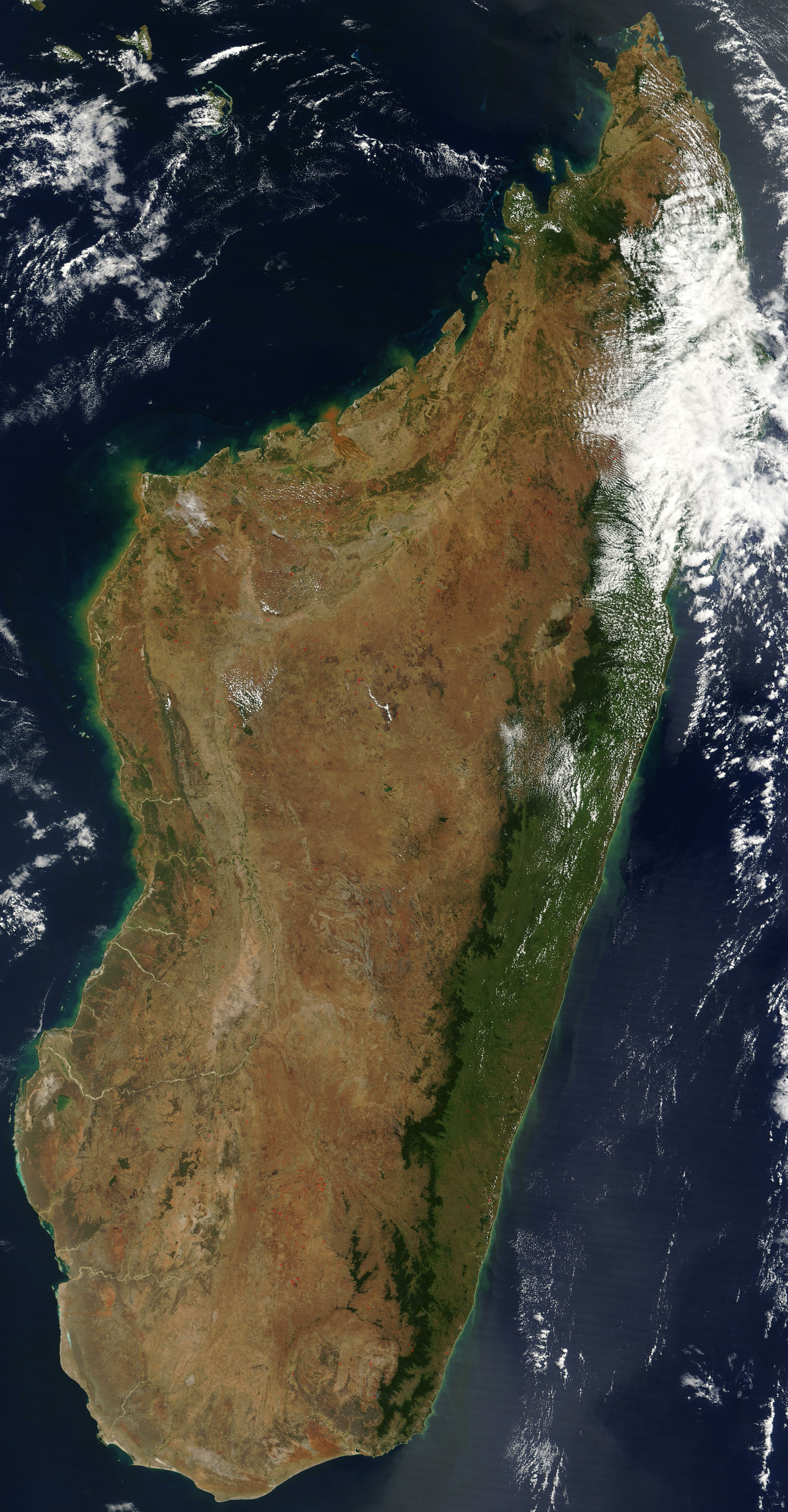 Satellite image of Madagascar in September 2003. Slightly cropped, original taken from NASA's Visible Earth: [1]. Original description: The world's fourth largest island, Madagascar, is featured in this Moderate Resolution Imaging Spectroradiometer (MODIS) image taken by the Terra satellite on September 10, 2003. Several active fires, marked with red dots, burn in the central highlands, which are primarily covered with rice fields. The fires are probably controlled burns to clear farmland. The narrow strip of green along the east coast of the island is a rain forest. The west coast is lined with baobabs, a desert tree with a fat trunk, and thorny forest.